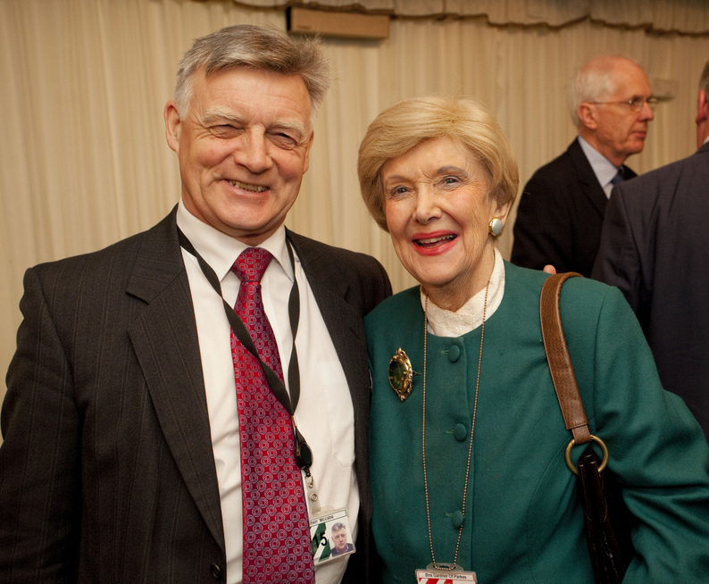 Steve McCabe MP and Baroness Gardner of Parkes at the All-Party Parliamentary Gardening & Horticulture Group meeting - November 2011